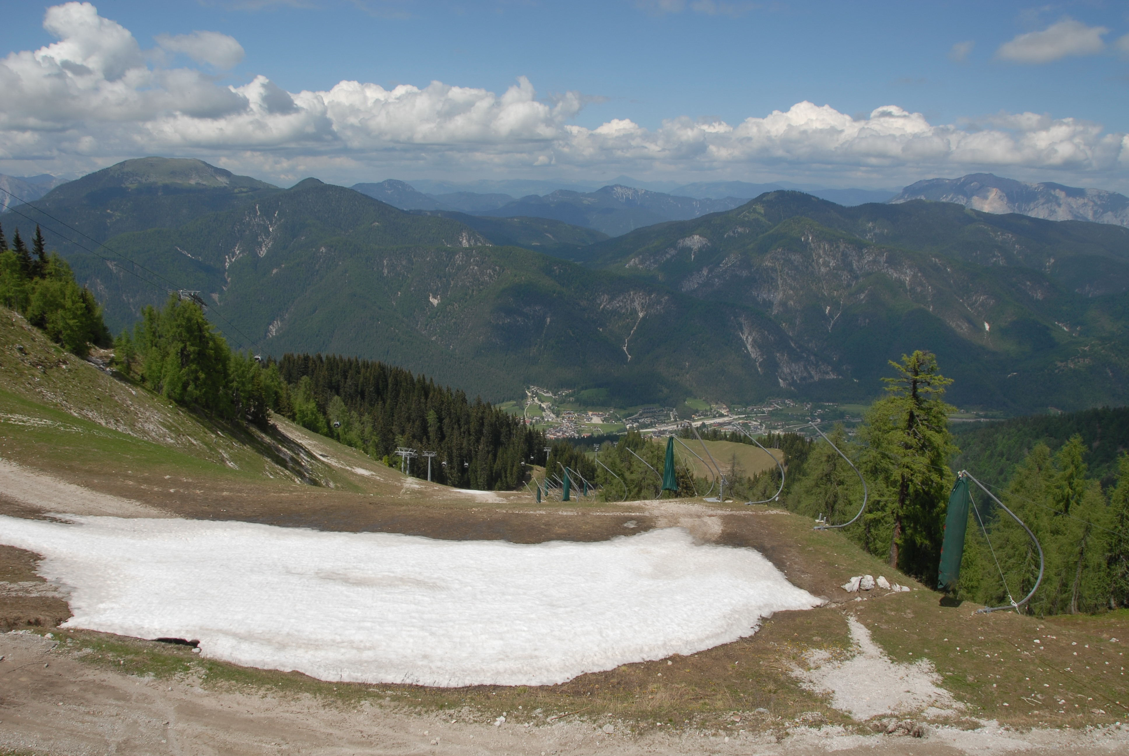 View from top of Mount Lussari at the the village Camporosso (german "Saifnitz") in the Val Canale, with the Mountain "Oisternig" in the left background, situated in the community Tarvisio, province of Udine, region Friuli-Venezia Giulia, Italy